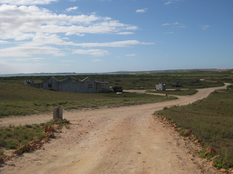 view from ningaloo homestead toward coast